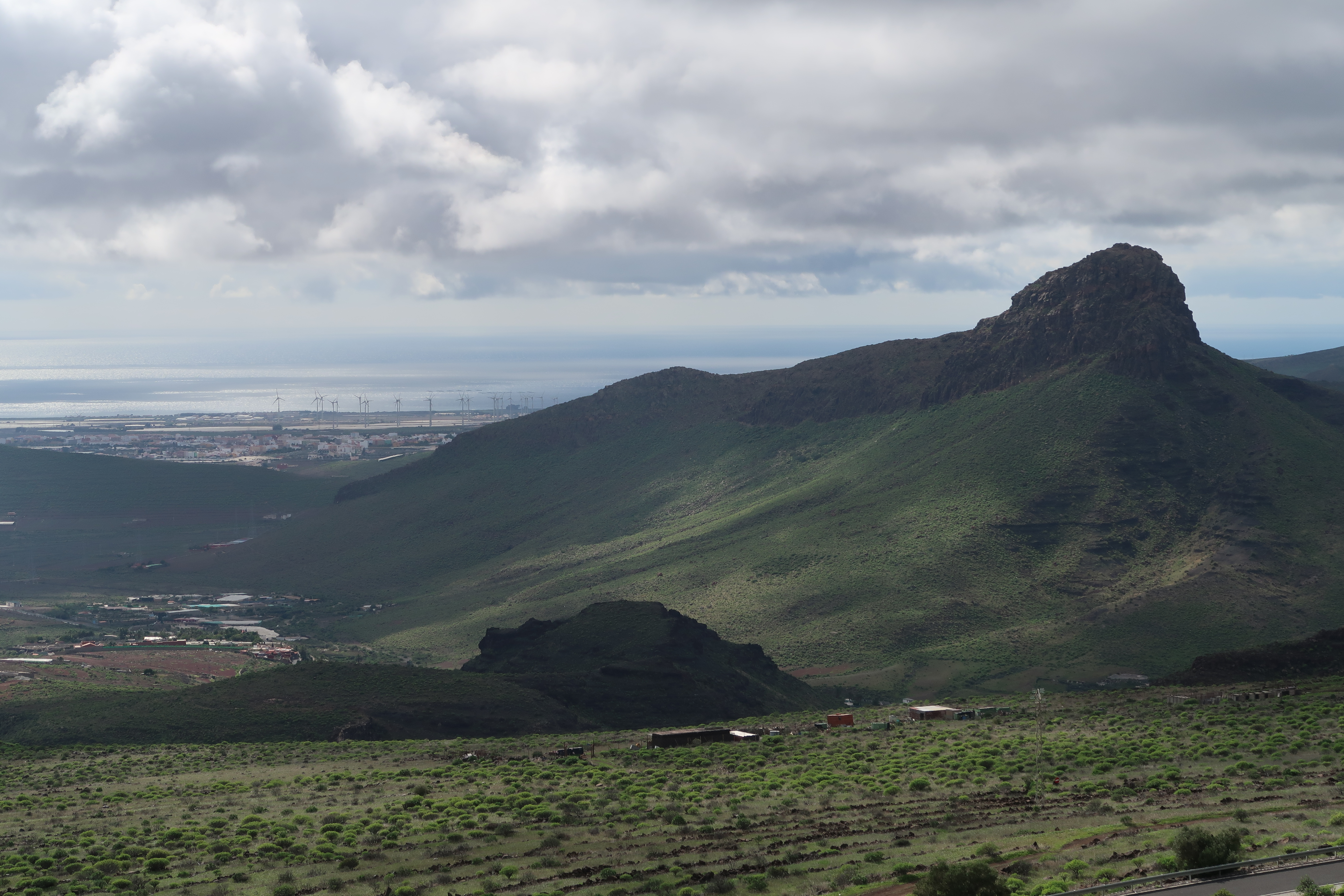 view from the north